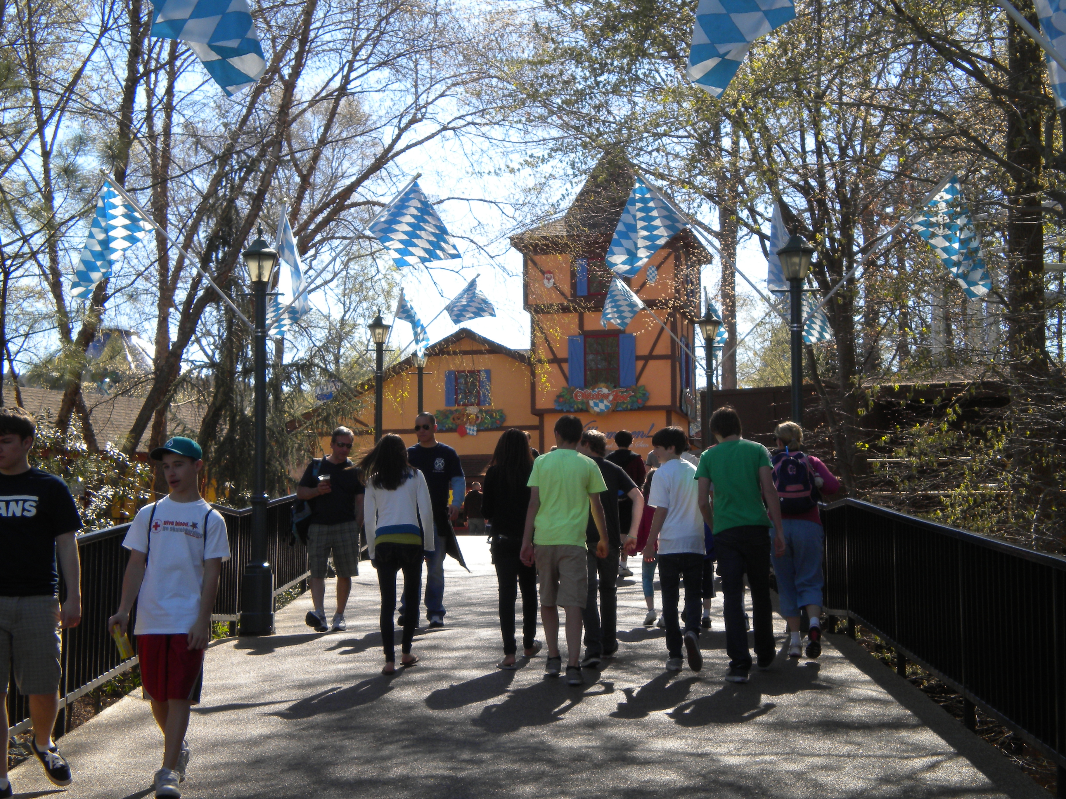 View from Oktoberfest bridge of new pretzel shop in Busch Gardens Williamsburg